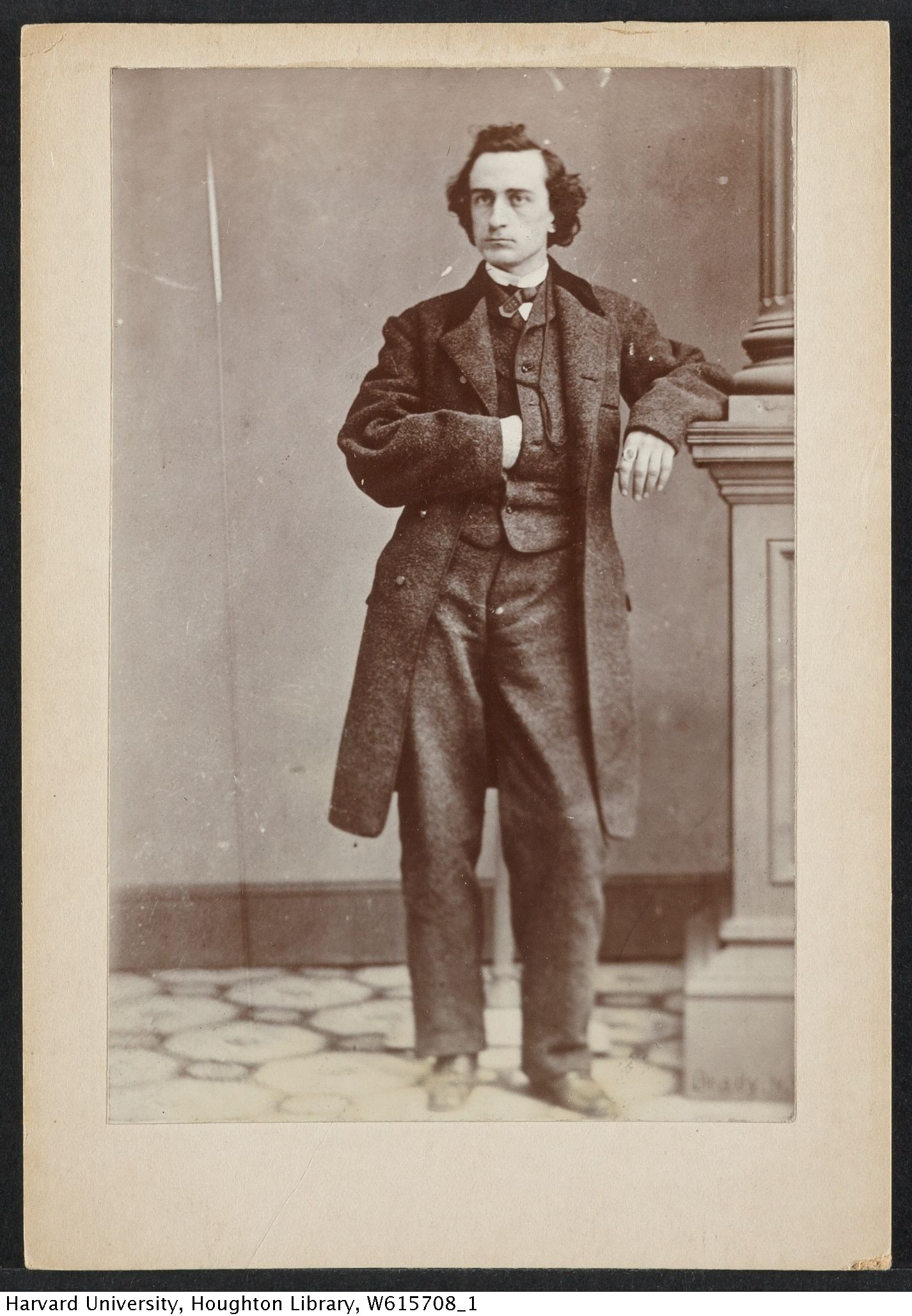 Cabinet card image of American actor Edwin Booth (1833-1893). TCS 1.2806, Harvard Theatre Collection, Harvard University